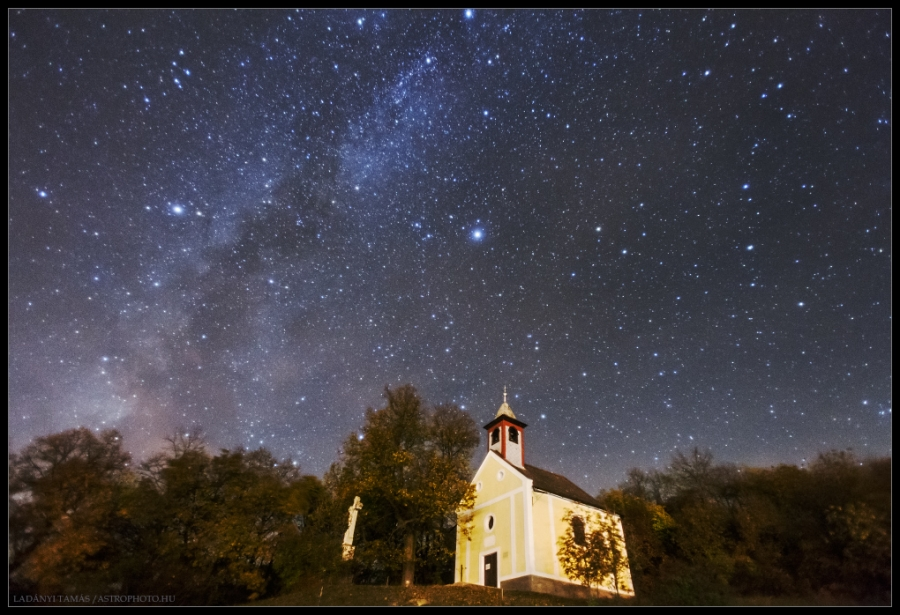 Autumn night at Csatár mountin with the Milky Way galaxy